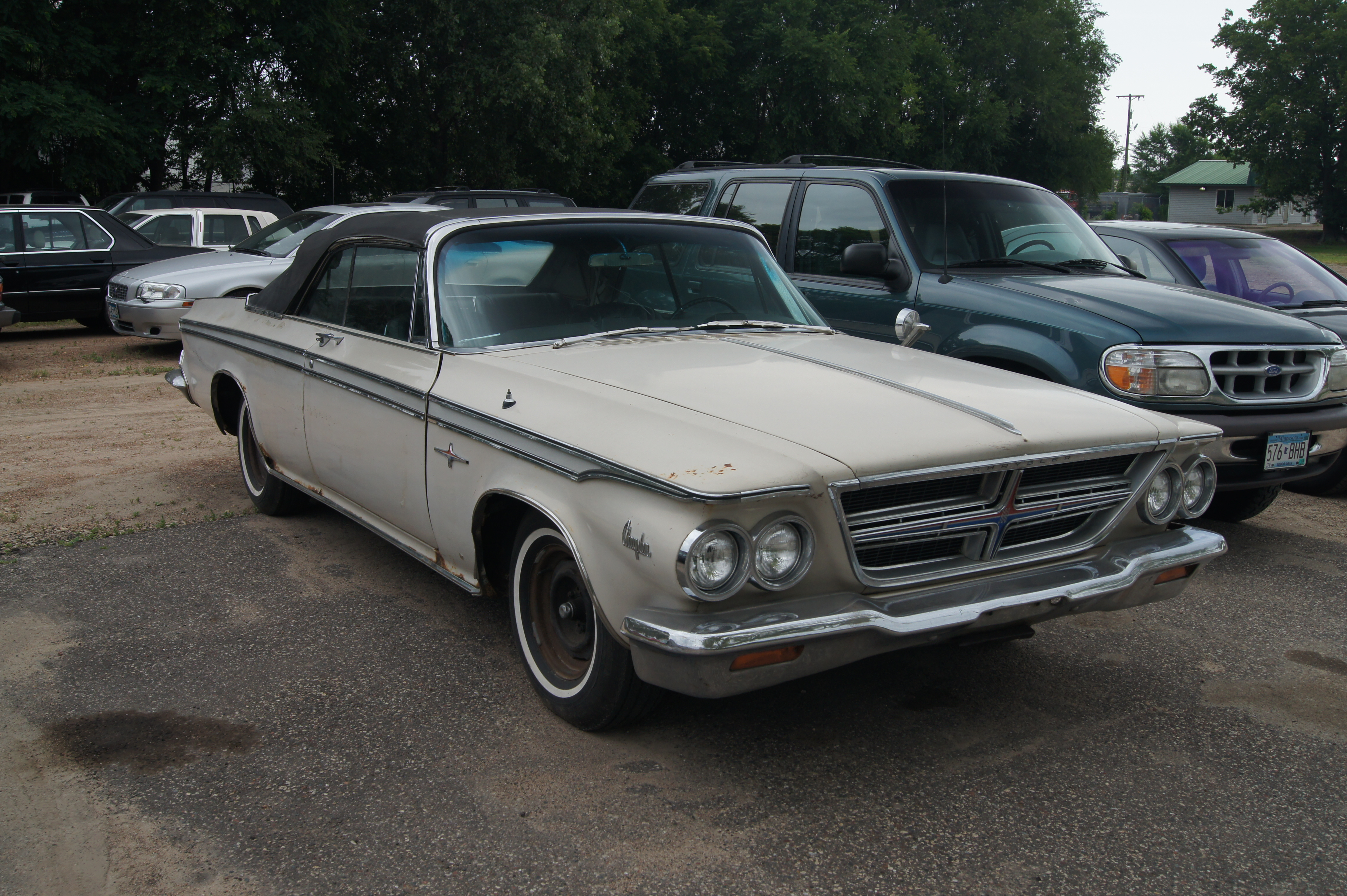 Click here for more car pictures at my Flickr site.